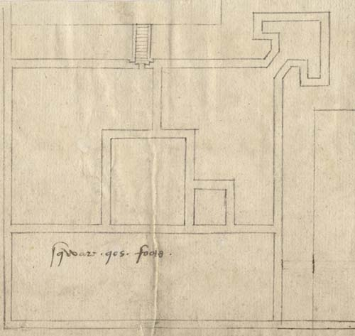 Plan of Yarmouth Castle, from A Survey of the Isle of Wight with plans of fortifications, 20 Nov 1559